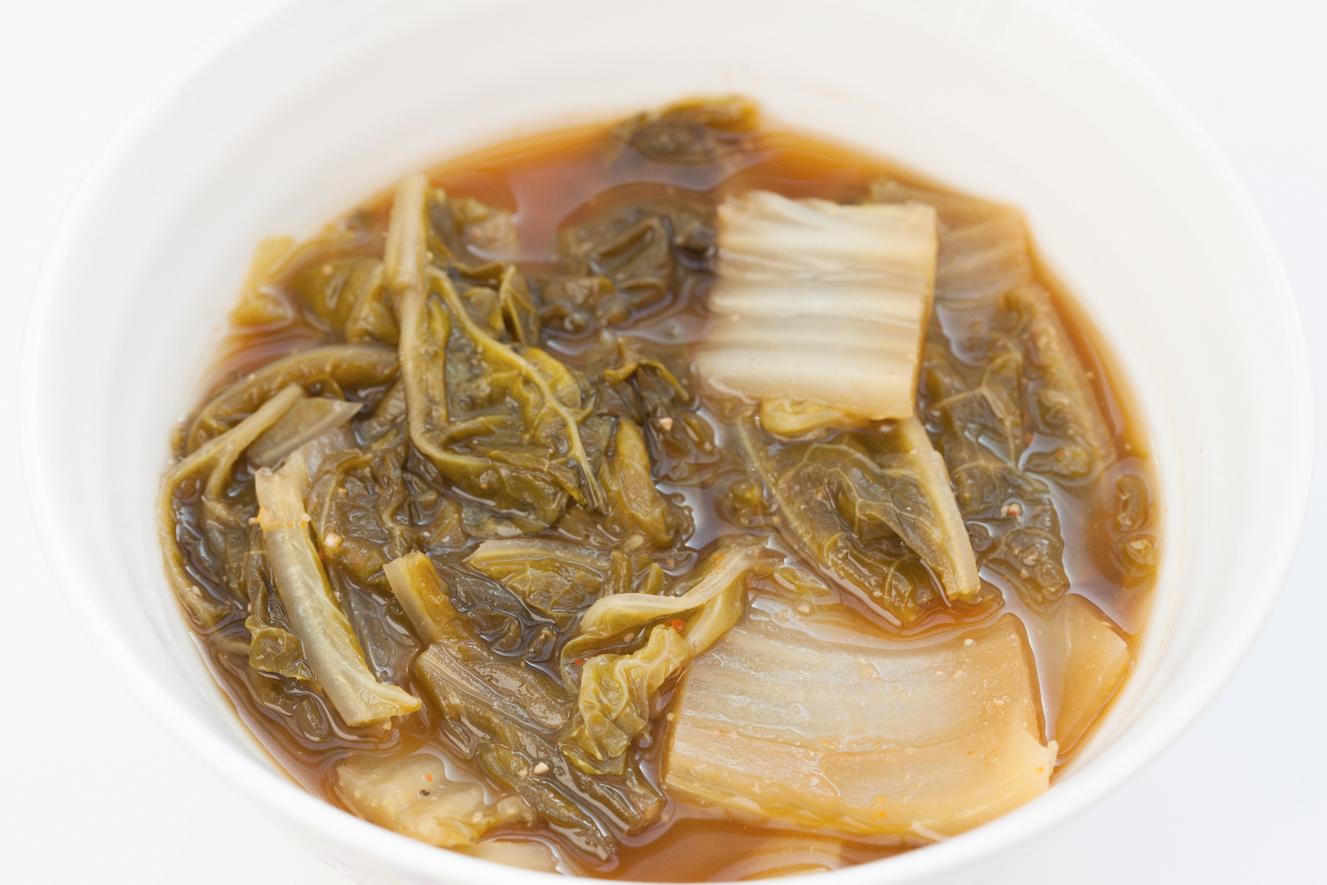 ugeojiguk (outer leaves soup)